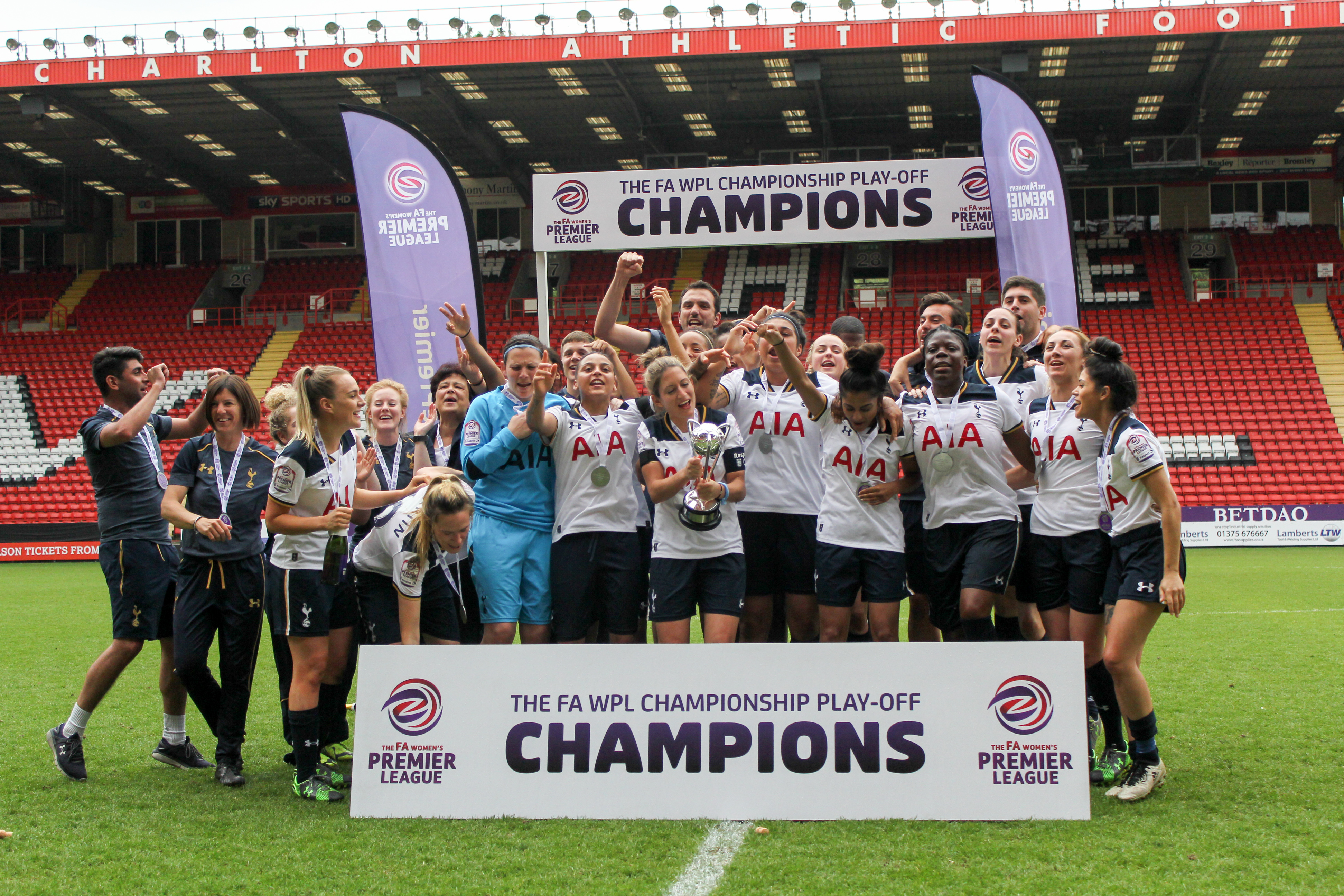 Tottenham Hotspur LFC v Blackburn Rovers LFC, 28 May 2017 – Tottenham celebrates winning the FA WPL play-off and becoming the overall FA WPL champion